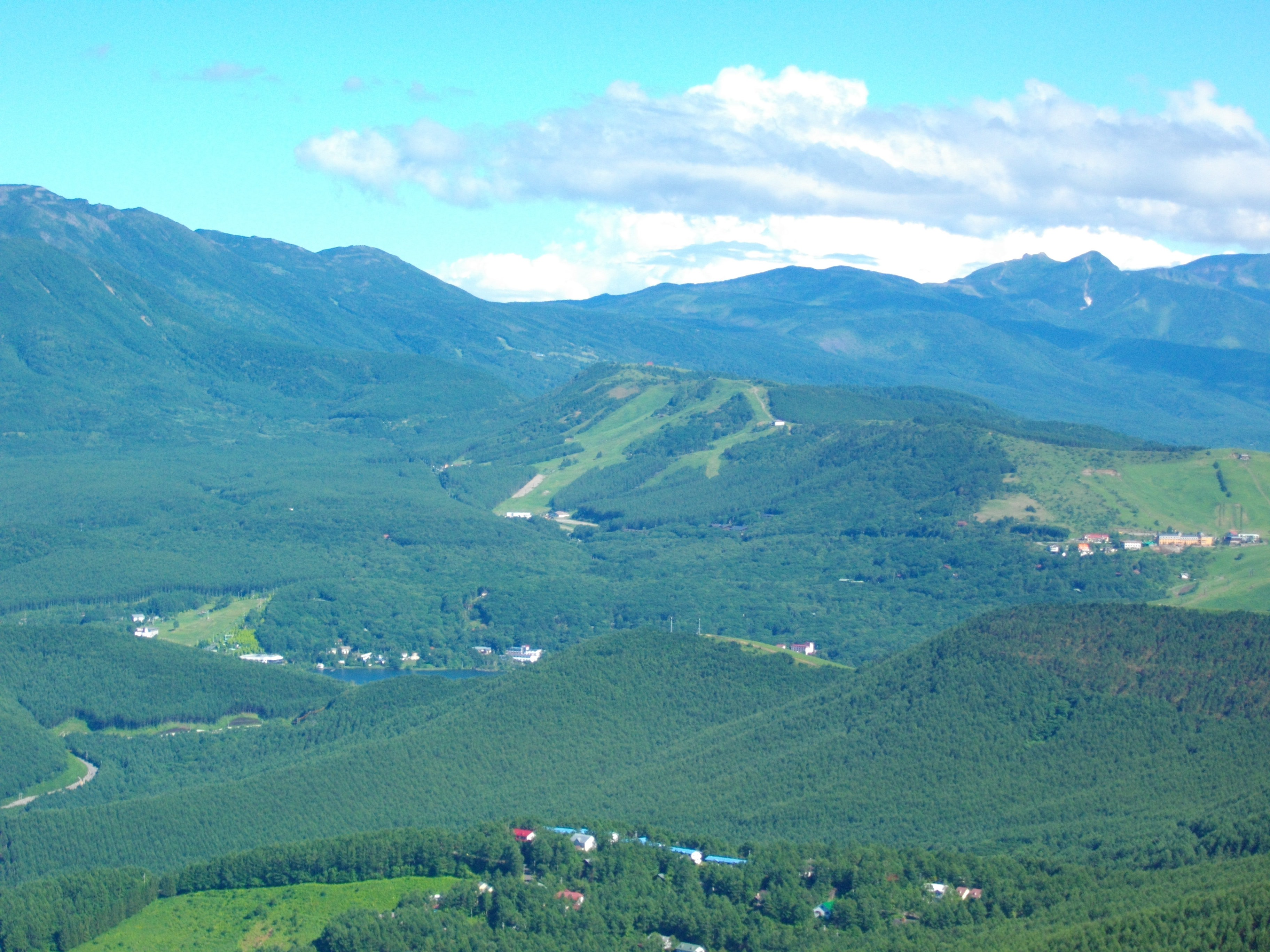 Mount Yashigamine seen from the WNW.